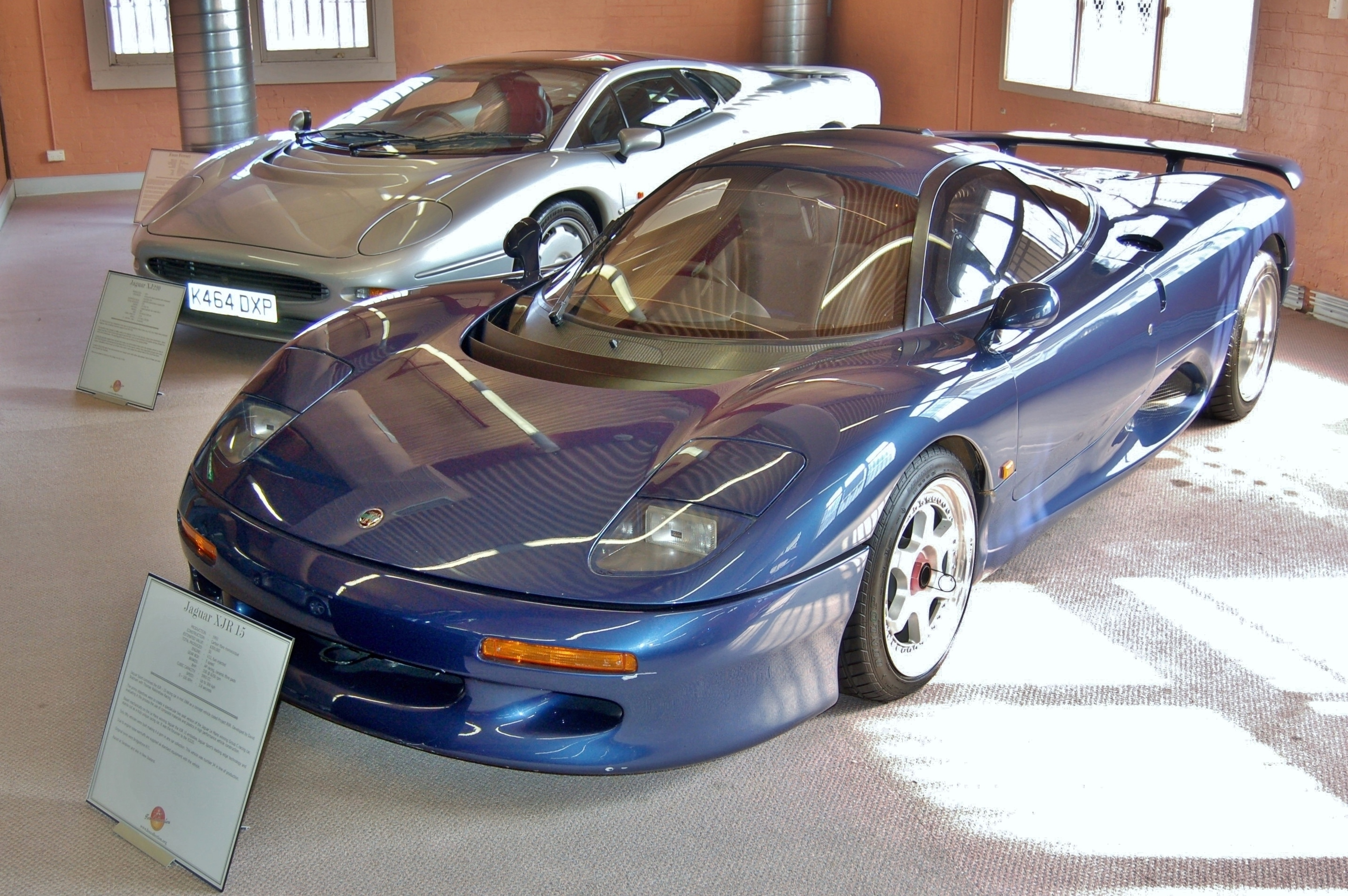 A pair of Jaguar supercars on display at the Fox Classic Car Collection, Docklands, Vic, Australia. In the foreground is a 1993 XJR-15, and in the background a 1993 XJ220.